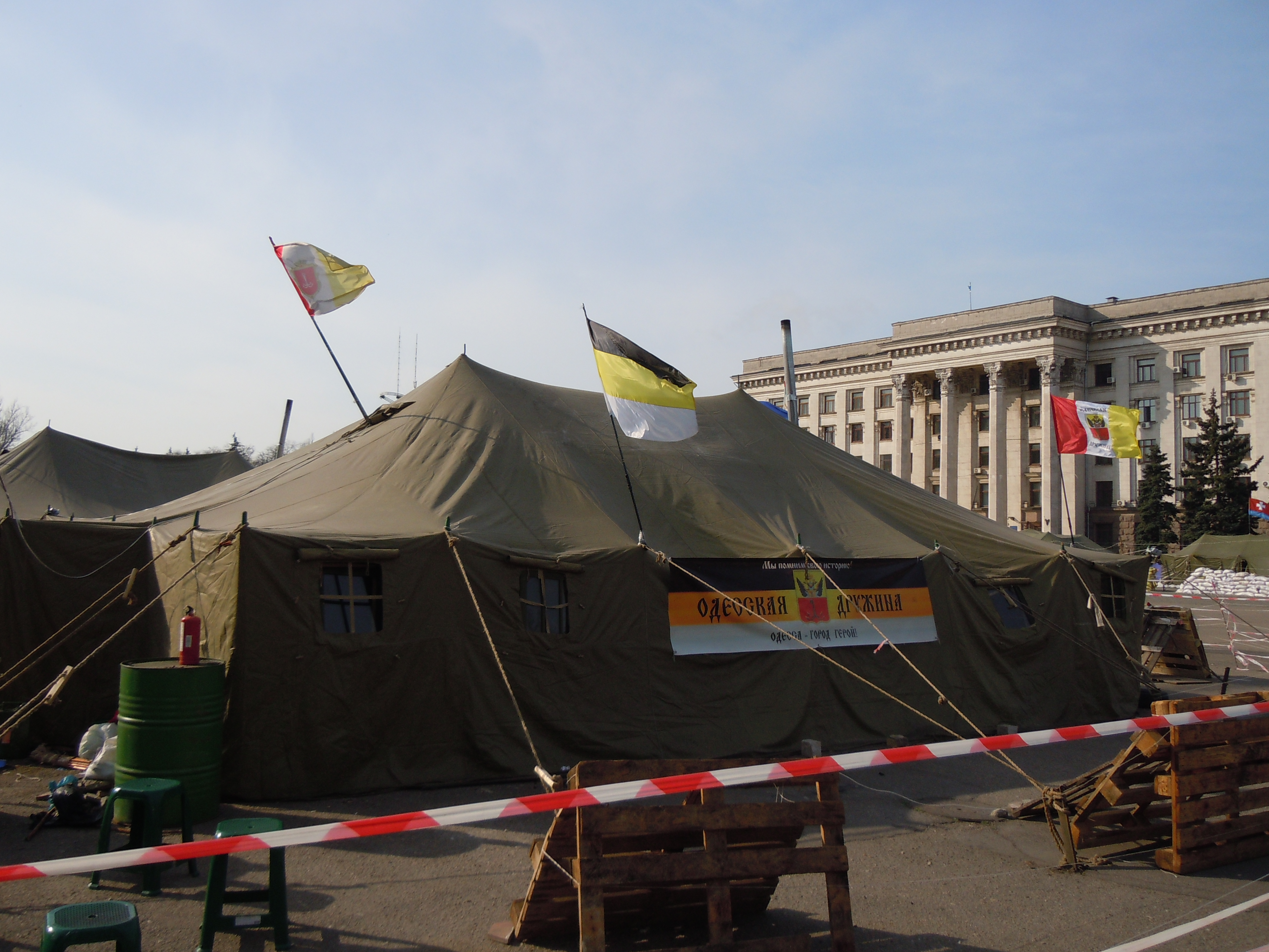 The tents encampment of Russian nationalists at the Kulikove Pole square in Odessa, Ukraine